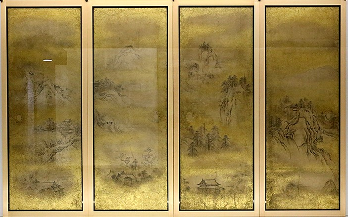 Panels from sliding doors